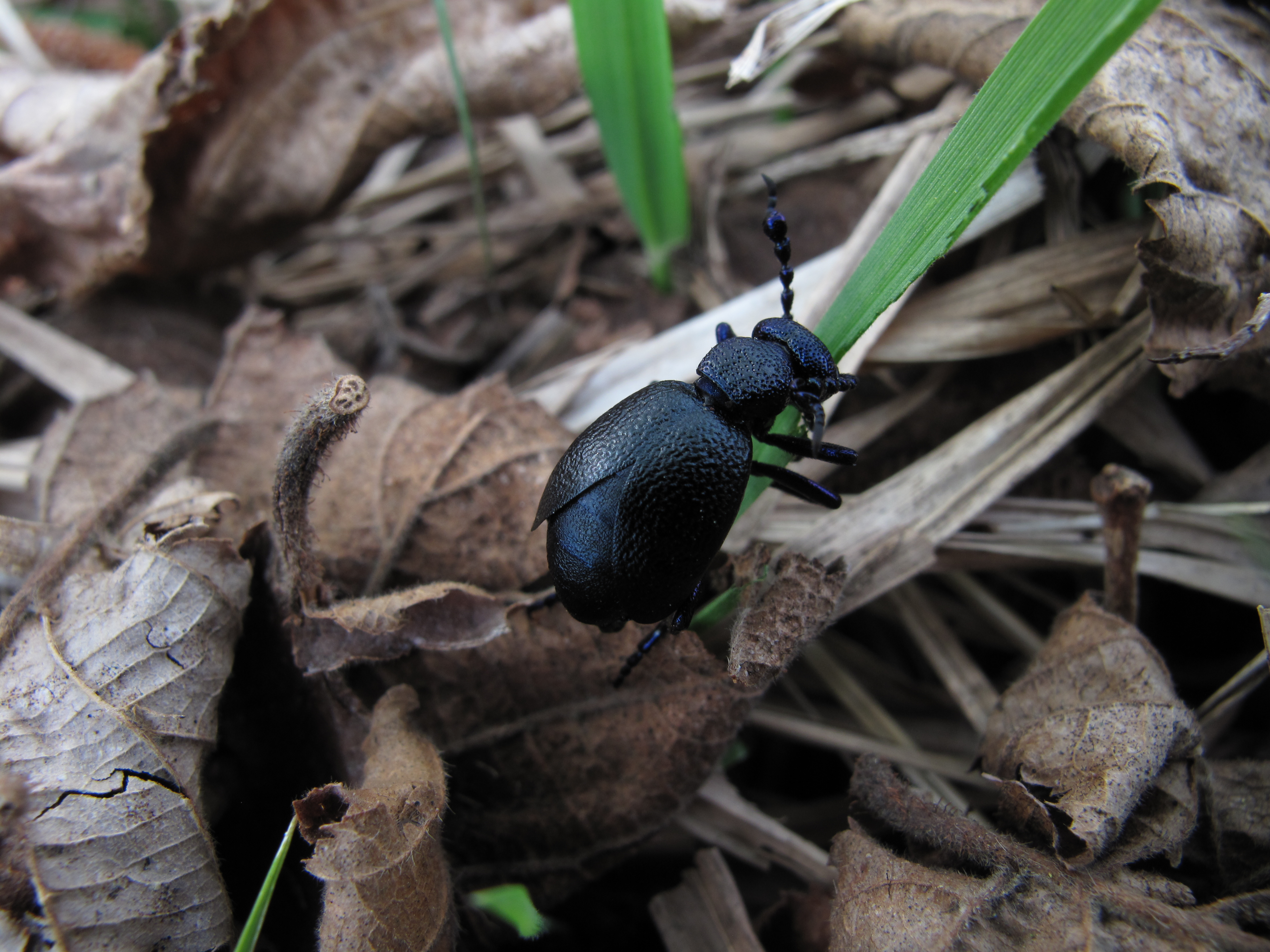 Male of Meloe proscarabaeus in national natural reserve Kněžičky, Kolín and Nymburk Districts, Czech Republic.